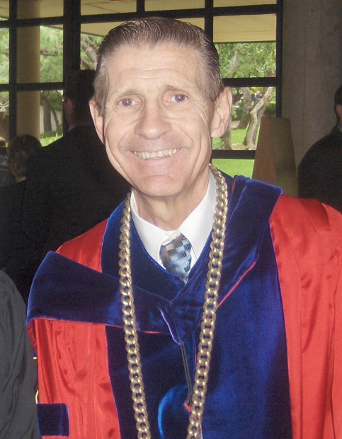 This photo of Dr. Frank Lazarus was taken at the University of Dallas Mass of the Holy Spirit, on September 3, 2008, in Irving, Texas by Andrew J. Hill.